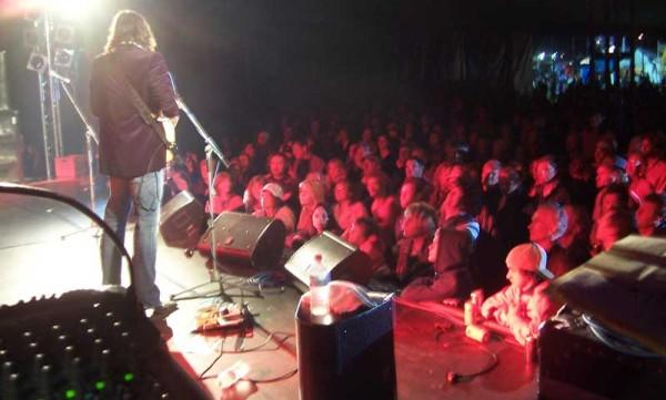 Wolf Mail playing to a sold out concert in Australia as part of his 2012 tour